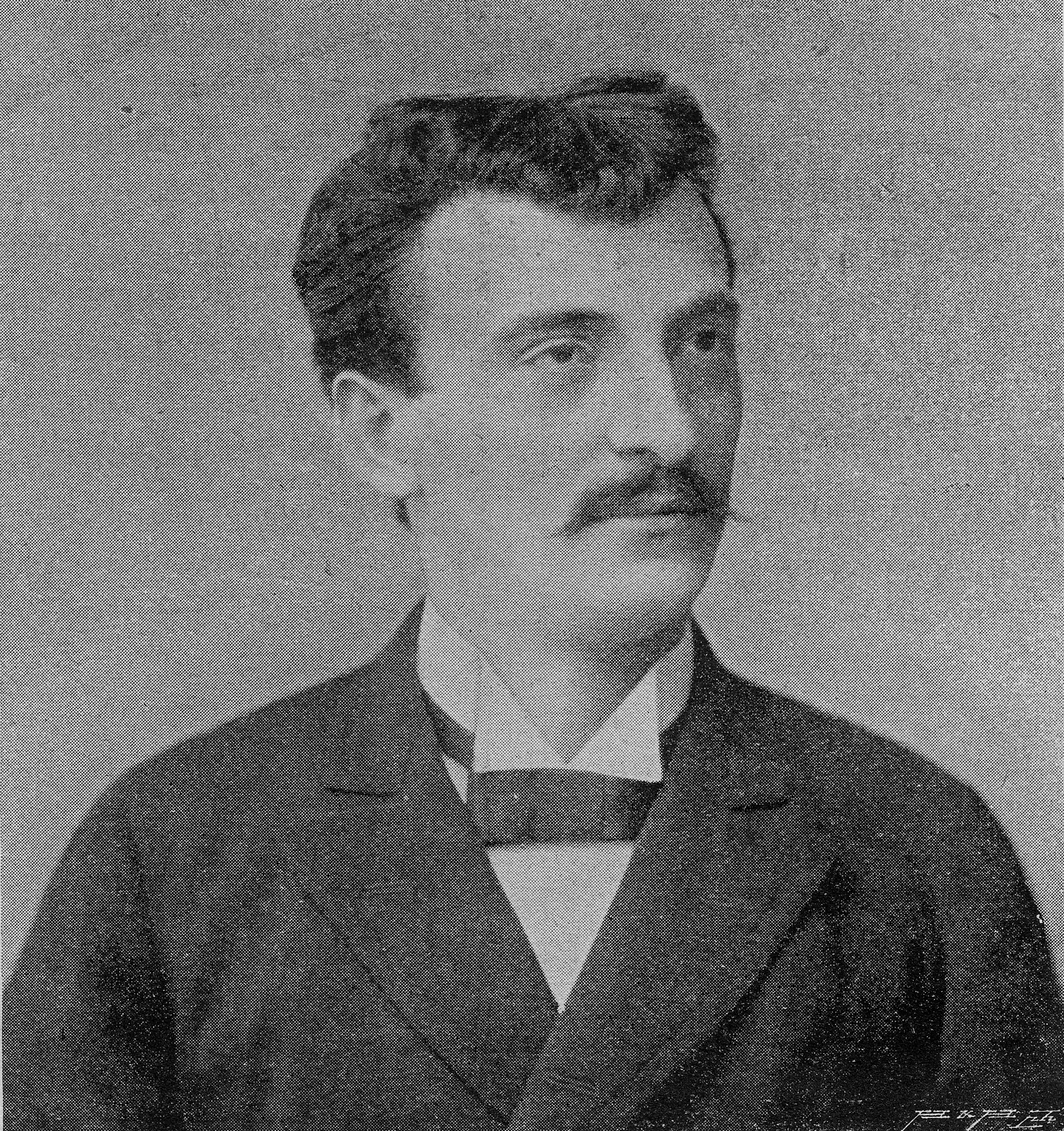 A photograph of Žarko Savić (1861-1930), a Serbian opera singer. Taken from the 1898 edition of the calendar Orao. Srpski (latinica): Fotografija Žarka Savića (1861-1930), srpskog operskog pevača. Preuzeto iz izdanja kalendara Orao za 1898. godinu.